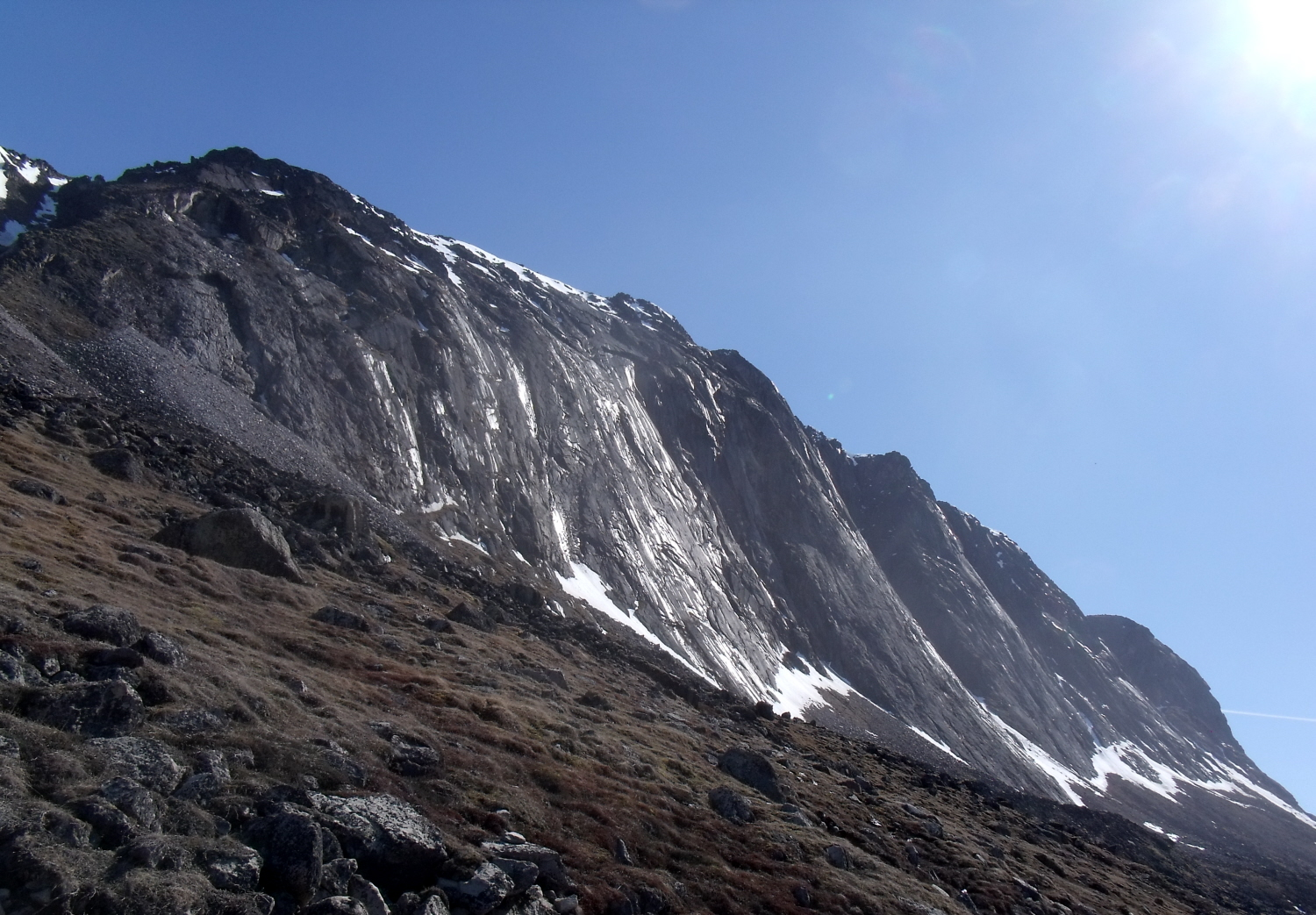 A glacially-polished misty mountain finishes the doffing of its winter coat. The foreground mound is a lateral moraine running along this half or side of a U-shaped bedrock valley.